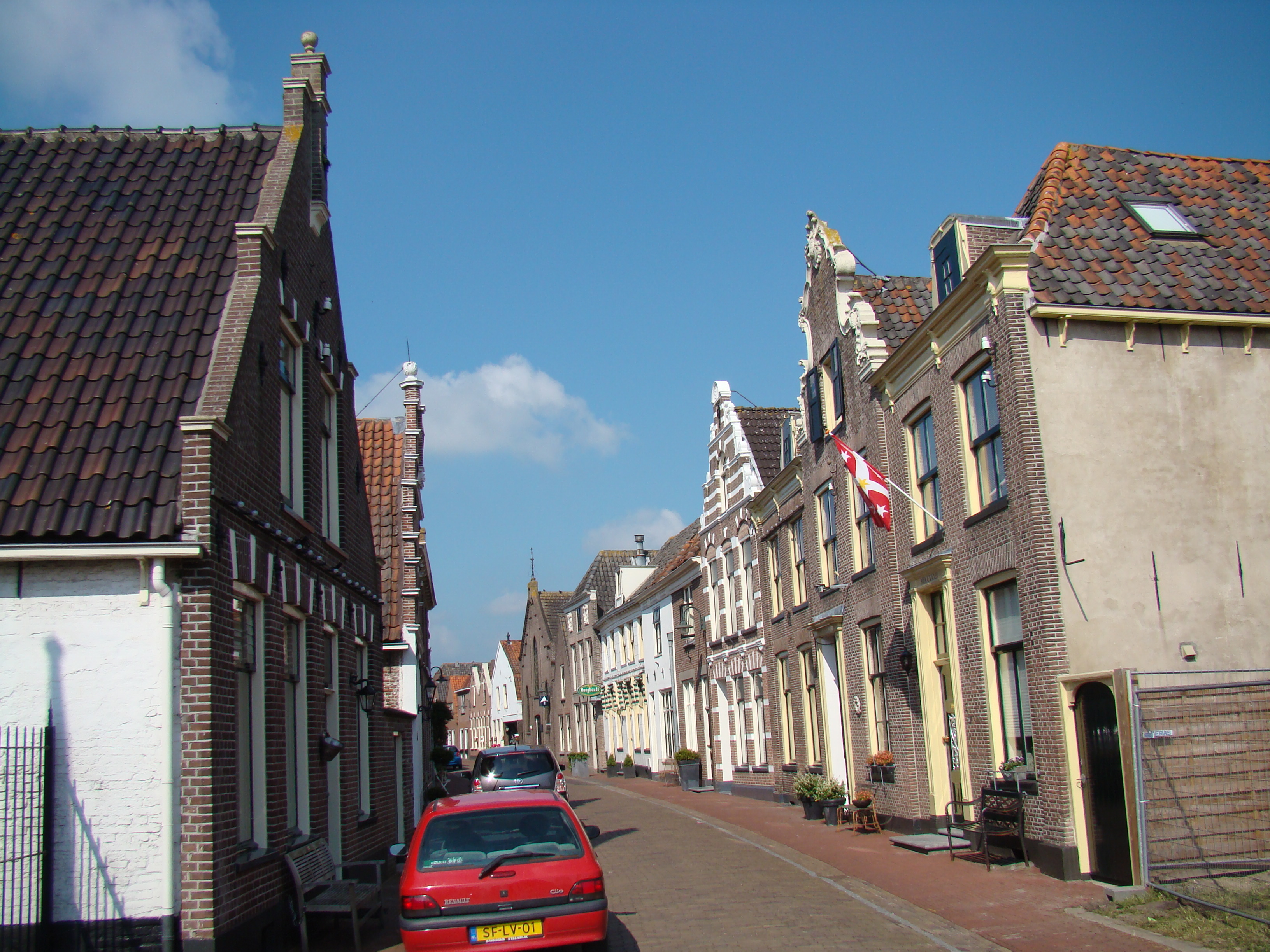 Impressions of Vollenhove